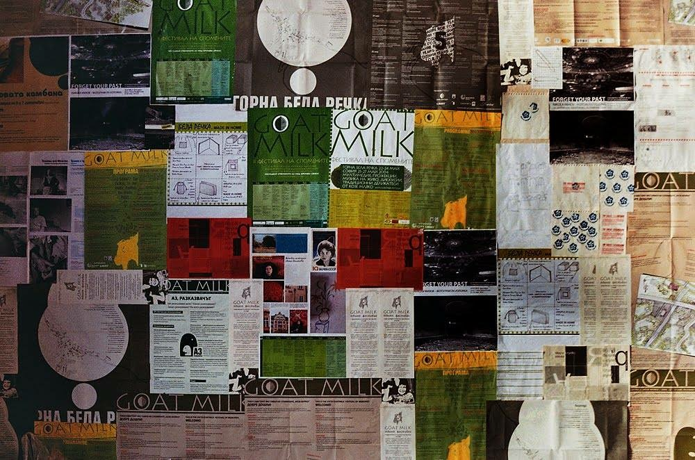 Posters about various Goat-Milk-Festivals in Bela Rechka, Bulgaria